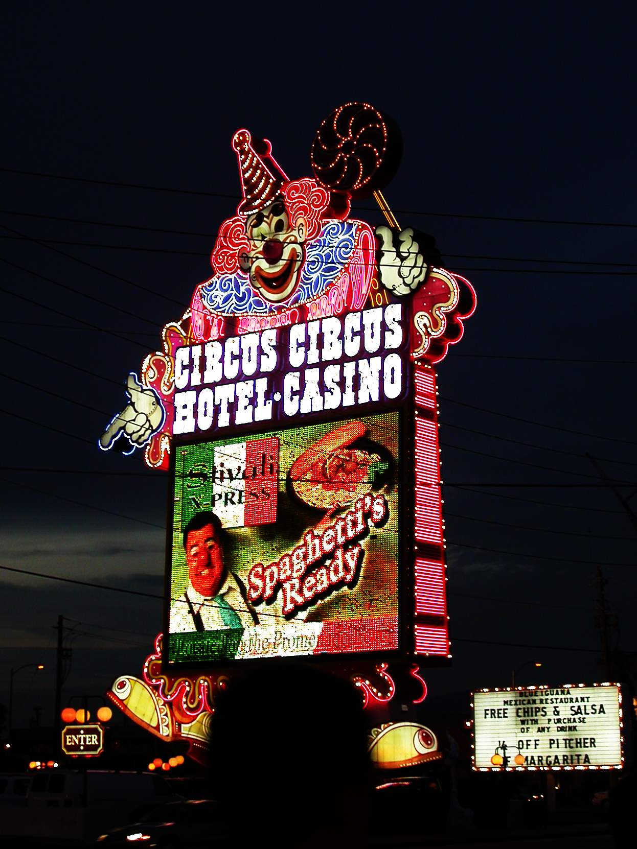 Neonlights at Circus Circus, Las Vegas, Nevada, USA